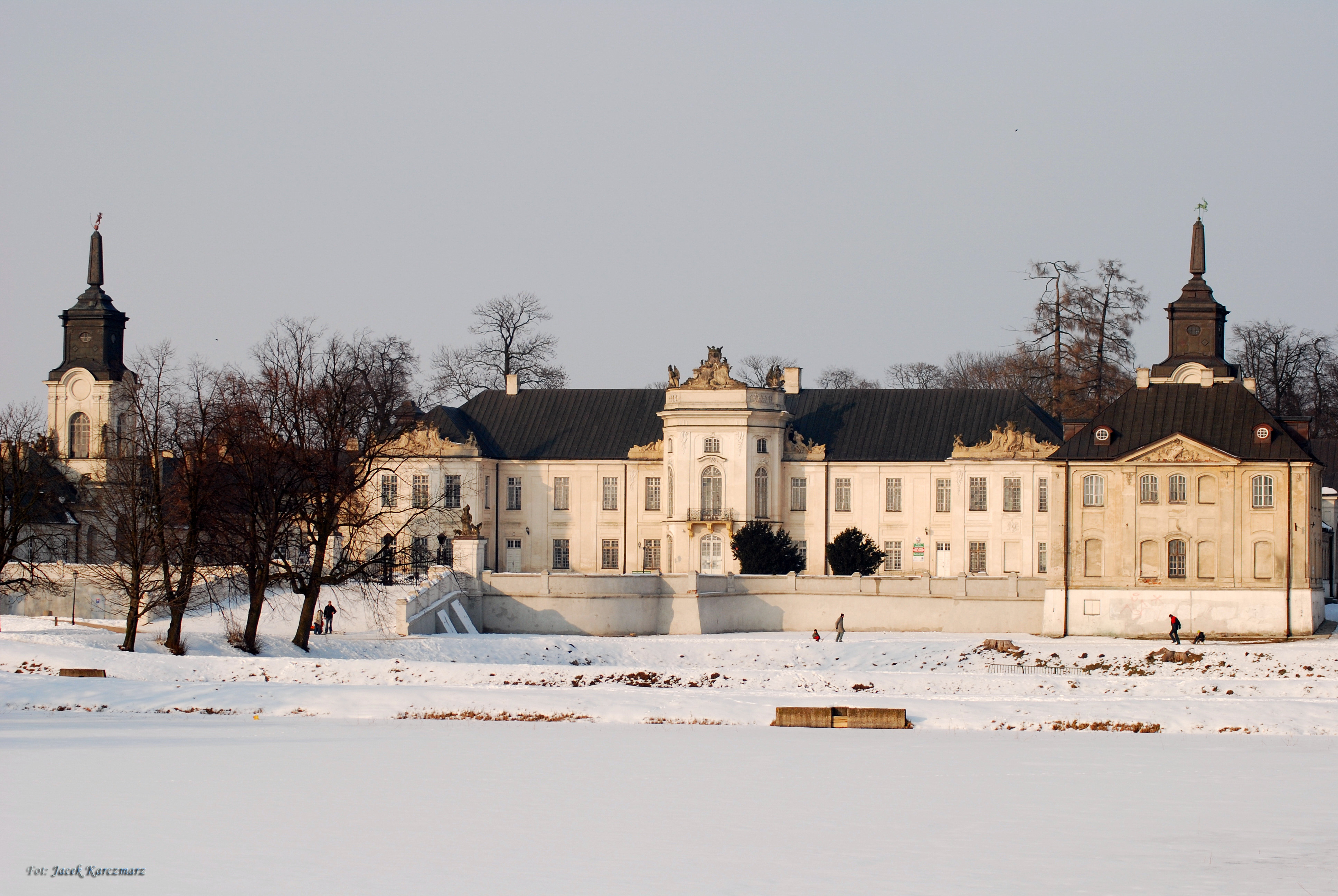 The Potocki Family Palace in Radzyń Podlaski